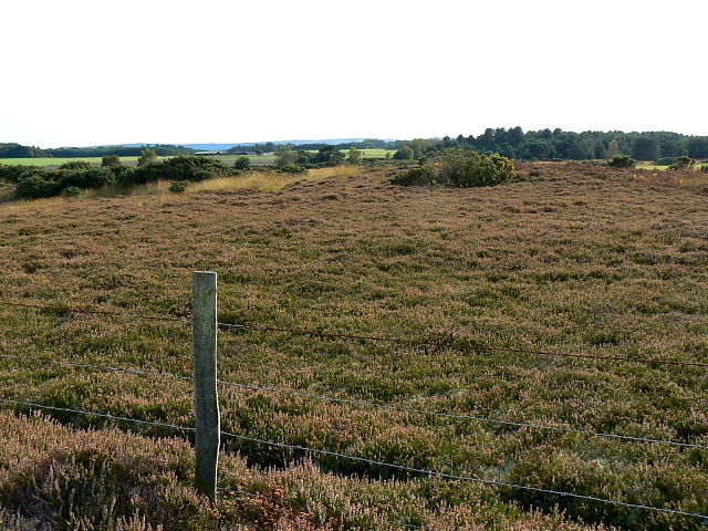 Heathland, near Bere Regis, Dorset, England. Classic Dorset heathland in this south-facing view, and so marked on the 1:25K map as 'bracken, heath or rough grassland'. The soil is very sandy and is riddled with rabbit burrows.